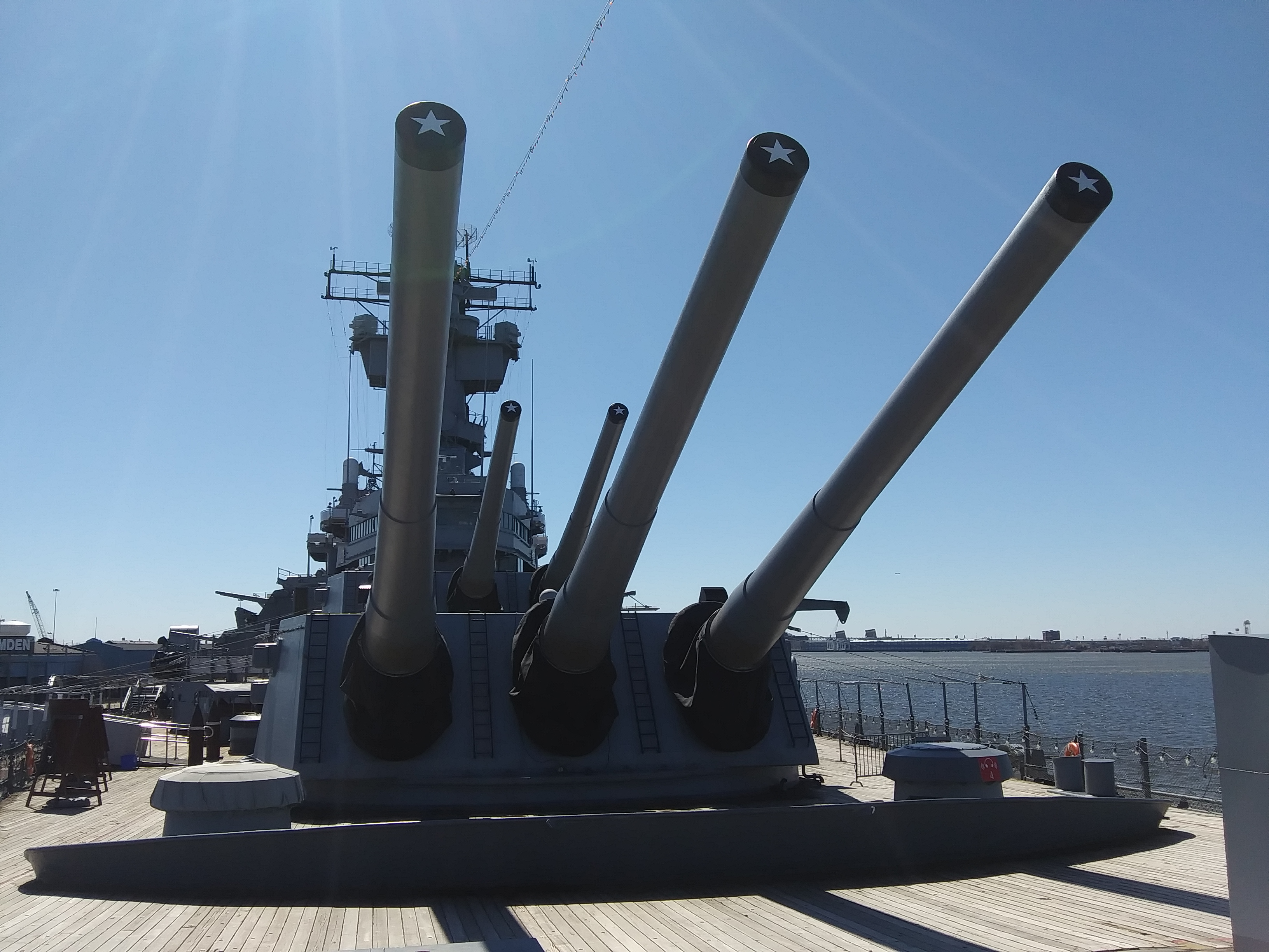 The Mark 7 Gun featured on the USS New Jersey